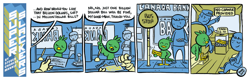 An example comic from Steve Manale's online series Superslackers.